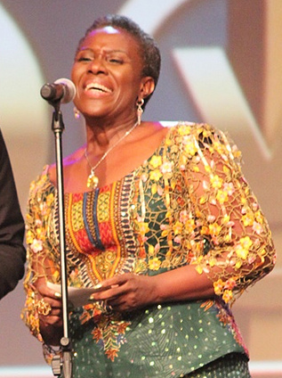 Olu Jacobs and Joke Silva at the 2014 Africa Magic Viewers Choice Awards